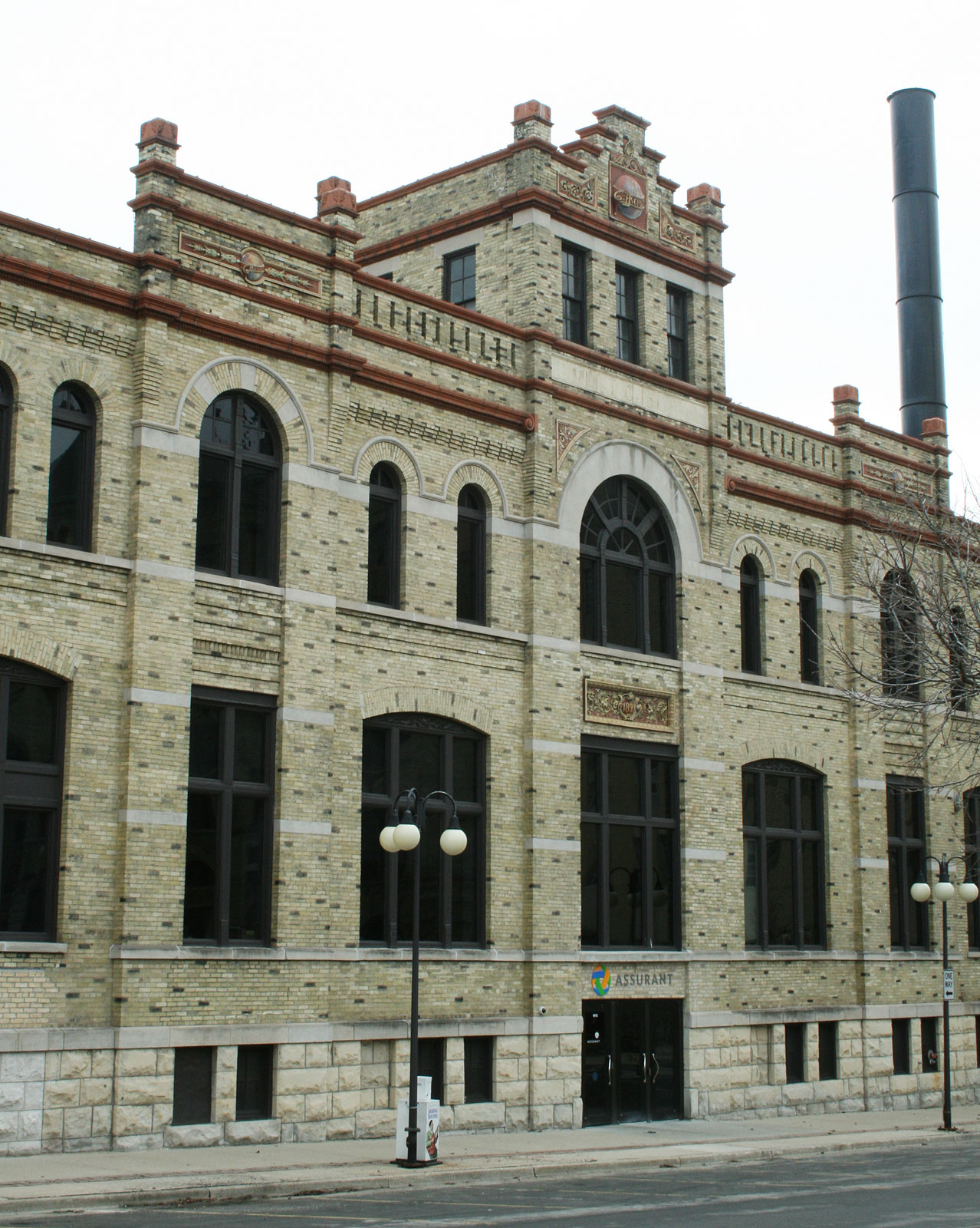 Joseph Schlitz Company Brewery Complex. National Register of Historic Places, city of Milwaukee, Wisconsin.